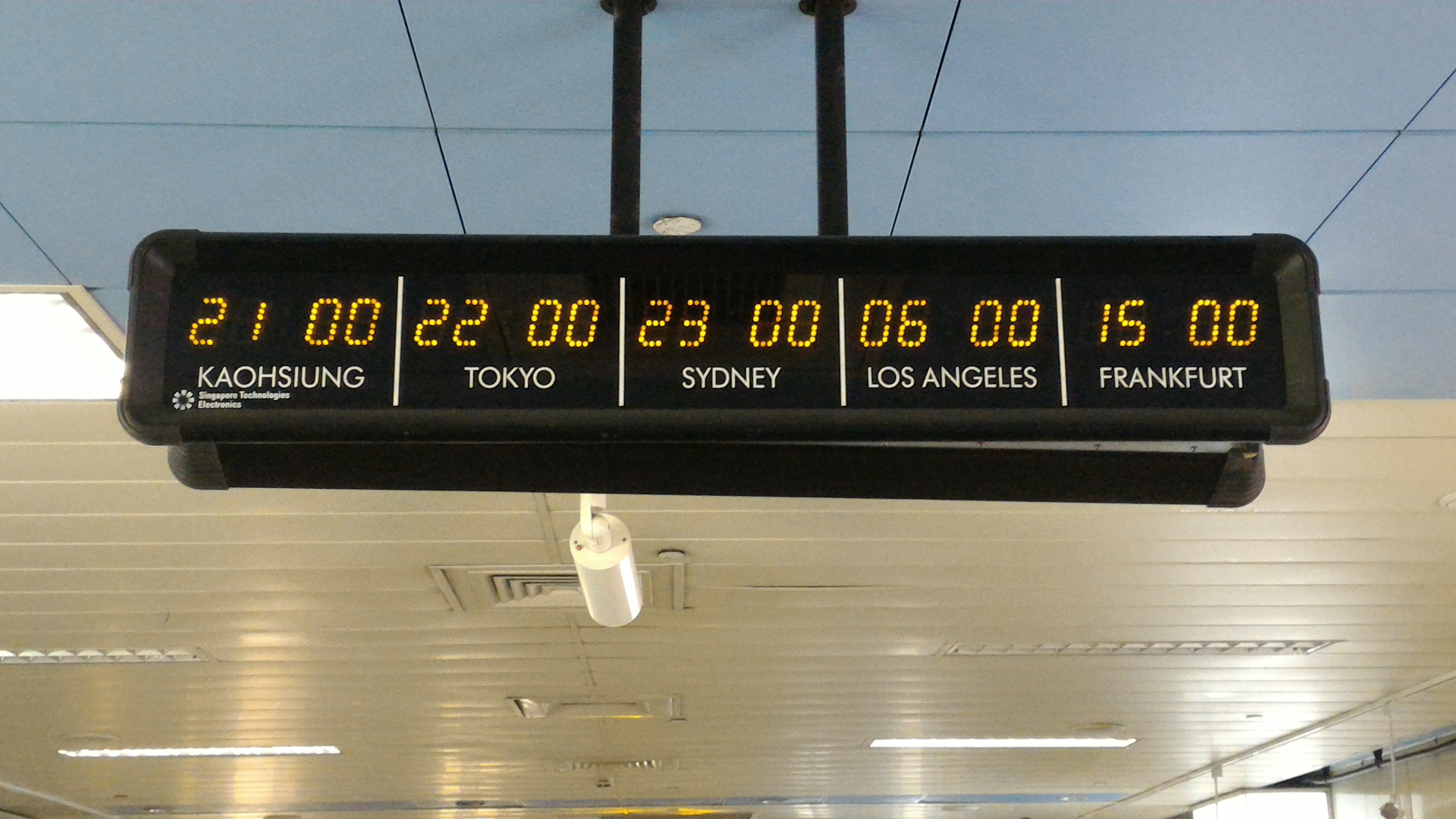 An LED digital clock is displayed the time of various places at Exit 6, Kaohsiung International Airport Station, Kaohsiung MRT: "Kaohsiung 21:00, Tokyo 22:00, Sydney 23:00, Los Angeles 06:00, Frankfurt 15:00".